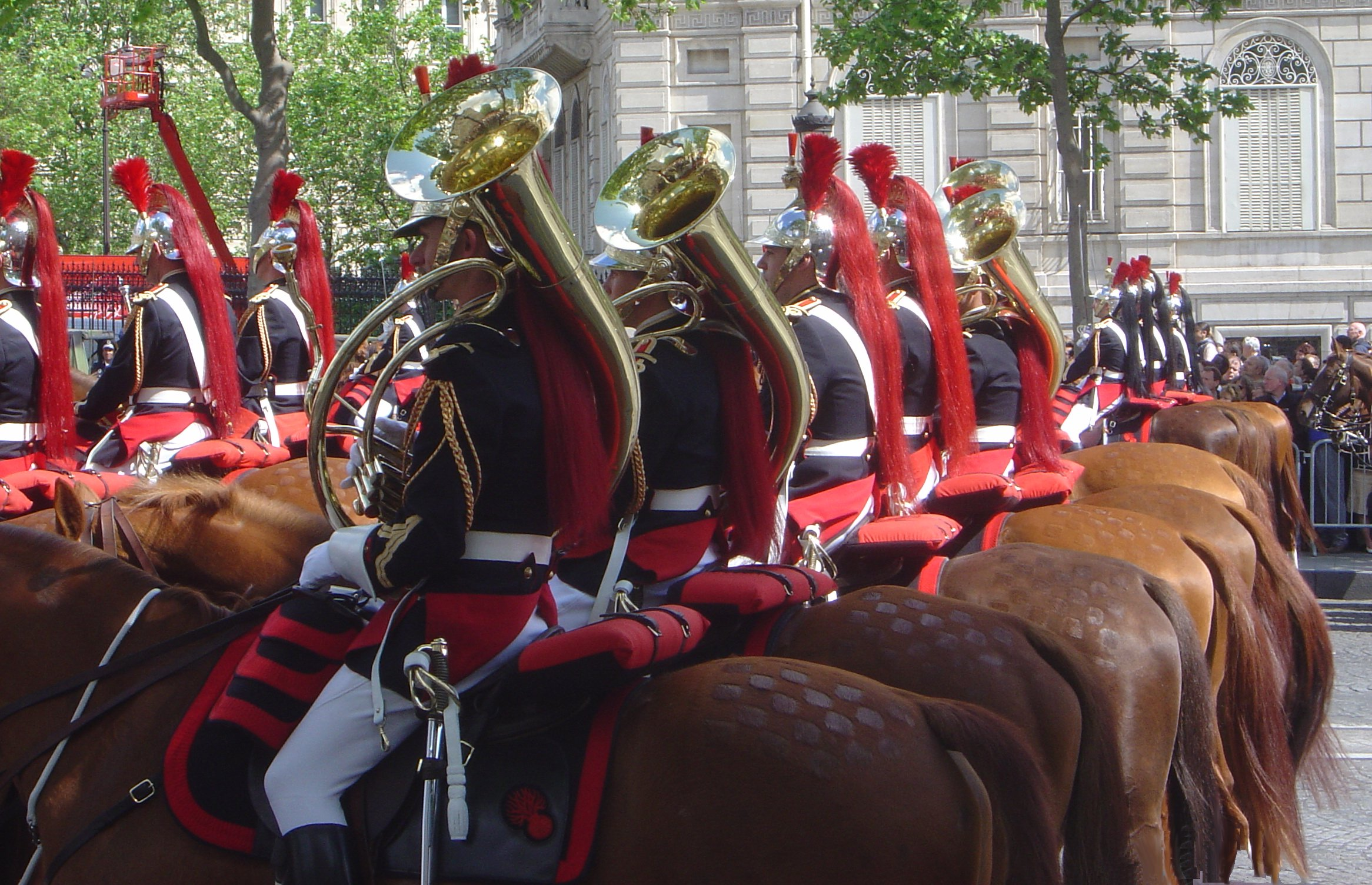 Republican Guard, cavalry fanfare (France), May 8, 2005 celebrations